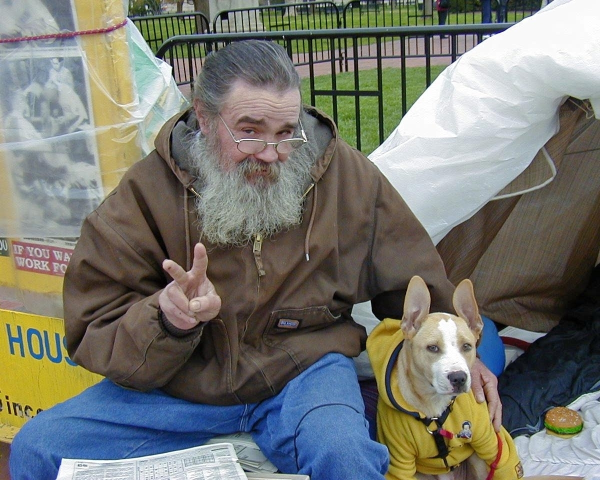 Thomas and his dog Sophie at the White House Peace Vigil. Thomas undertook a 27-year peace vigil in front of the White House on the 1600 block of Pennsylvania Avenue, Lafayette Square, Washington, D.C.